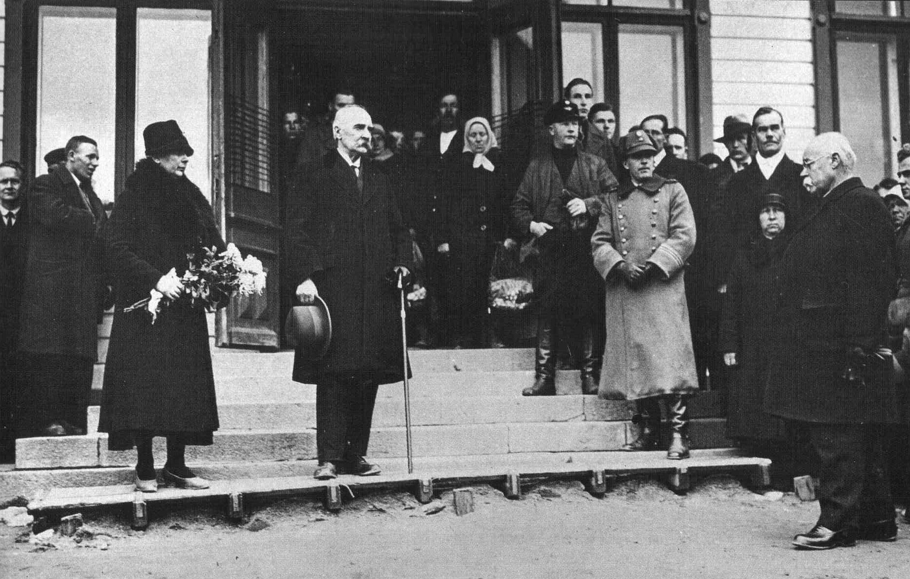 The first president of the Republic of Finland Kaarlo Juho Ståhlberg and his wife Ester Ståhlberg at Joensuu railway station on 15th October 1930 after they were kidnapped in Helsinki and taken by car to Joensuu in Eastern Finland. The catching was done by Finnish extreme right militants.